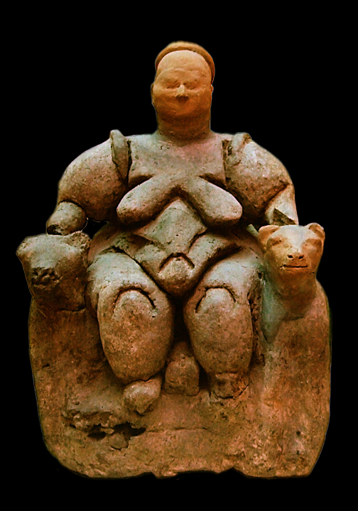 Seated Woman of Çatalhöyük, Museum of Anatolian Civilizations, Ankara, Turkey Doubts about accuracy of this description are presented in Wikipedia:Talk:Cybele #Seated Woman of Çatalhöyük.